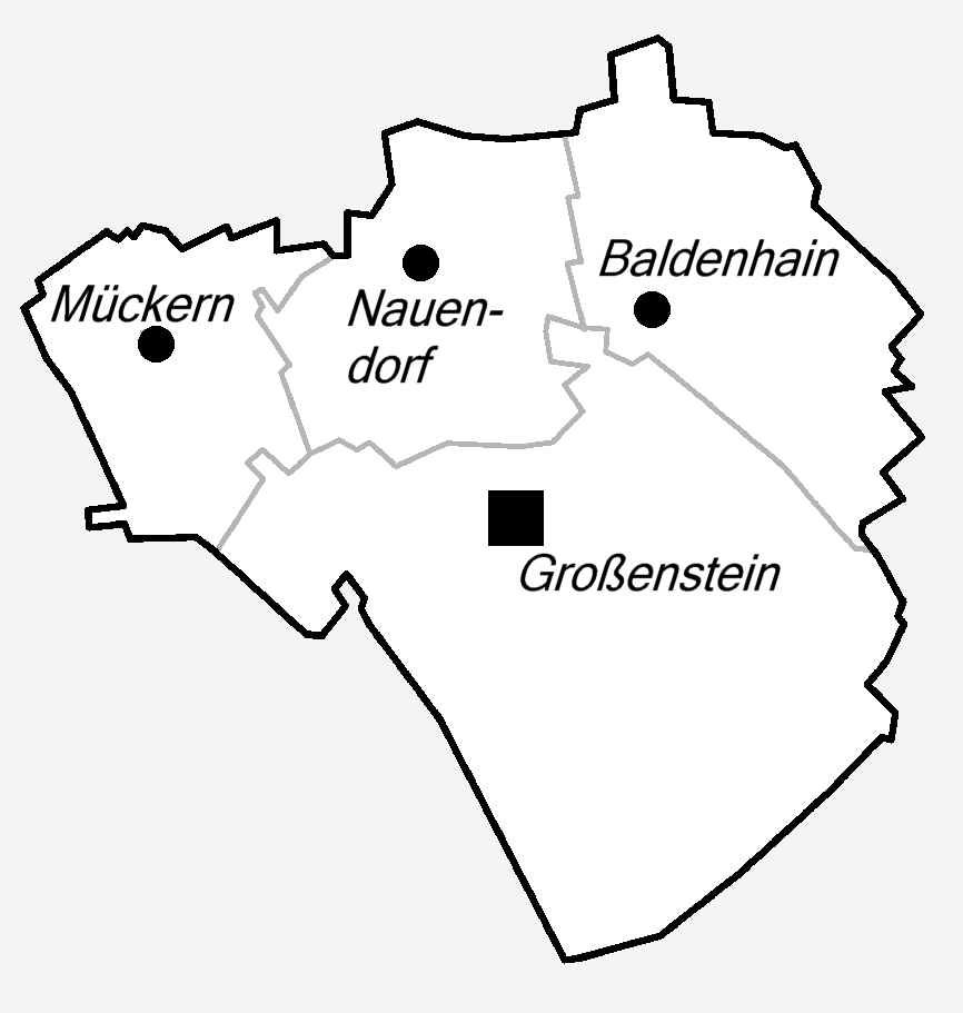 District-Map of Großenstein in Thuringia.